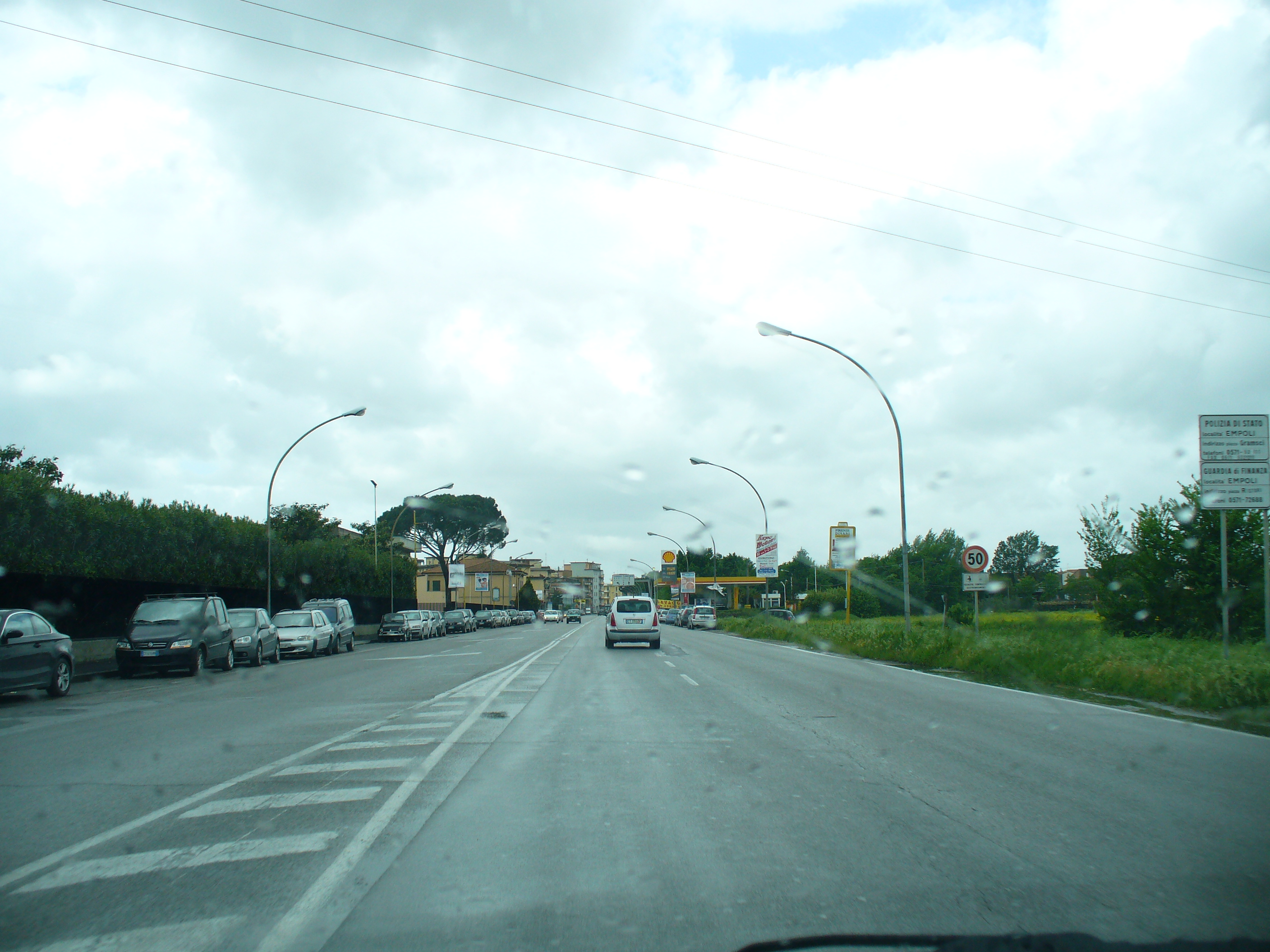 SS67 Tosco Romagnola at Empoli